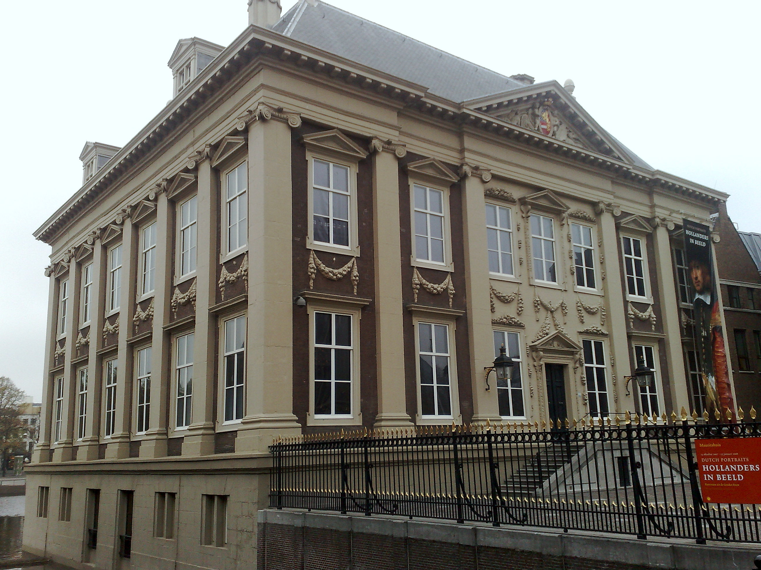 Mauritshuis, The Hague